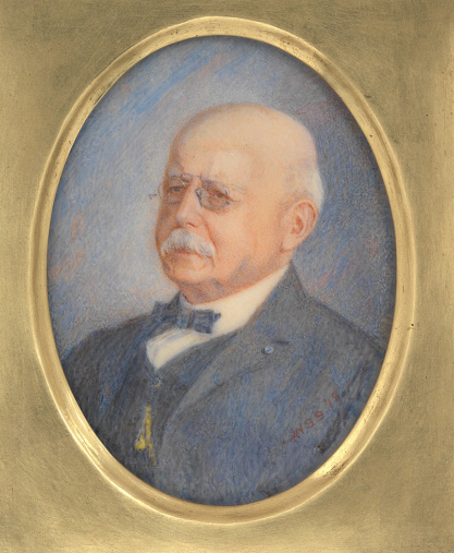 Annie Ware Sabine Siebert - Thomas Corwin Mendenhall - NPG.67.138 - National Portrait Gallery (croppped)